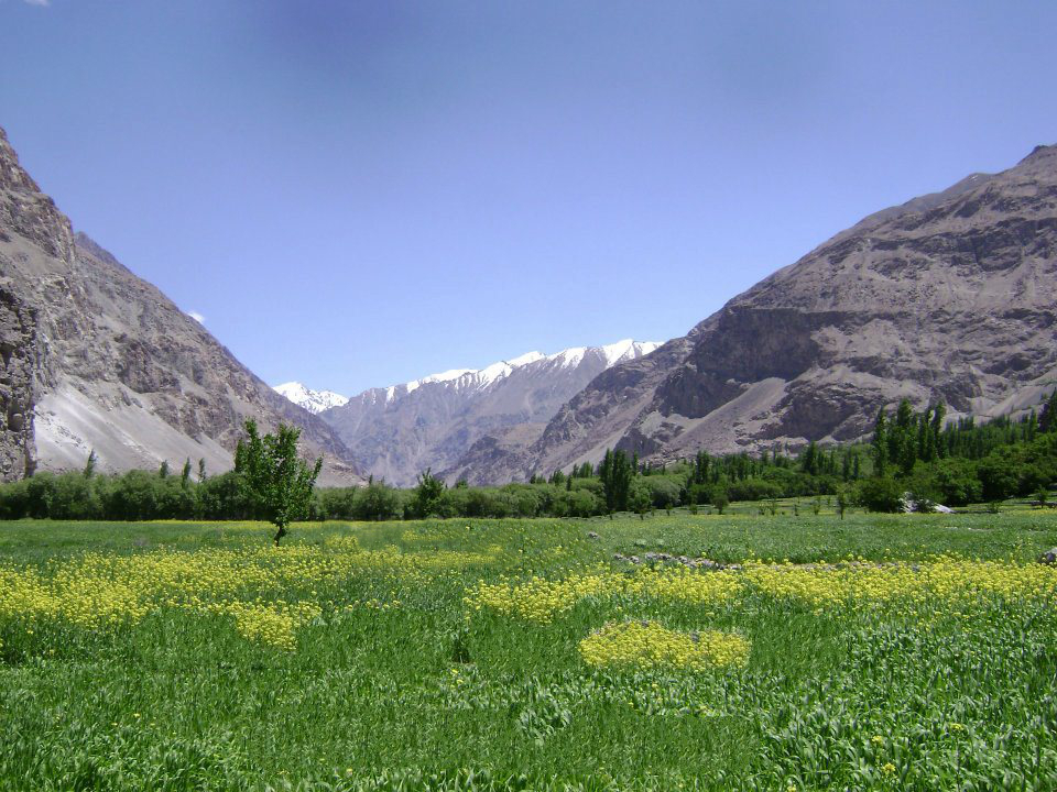 hassanabad, chorbat, baltistan1